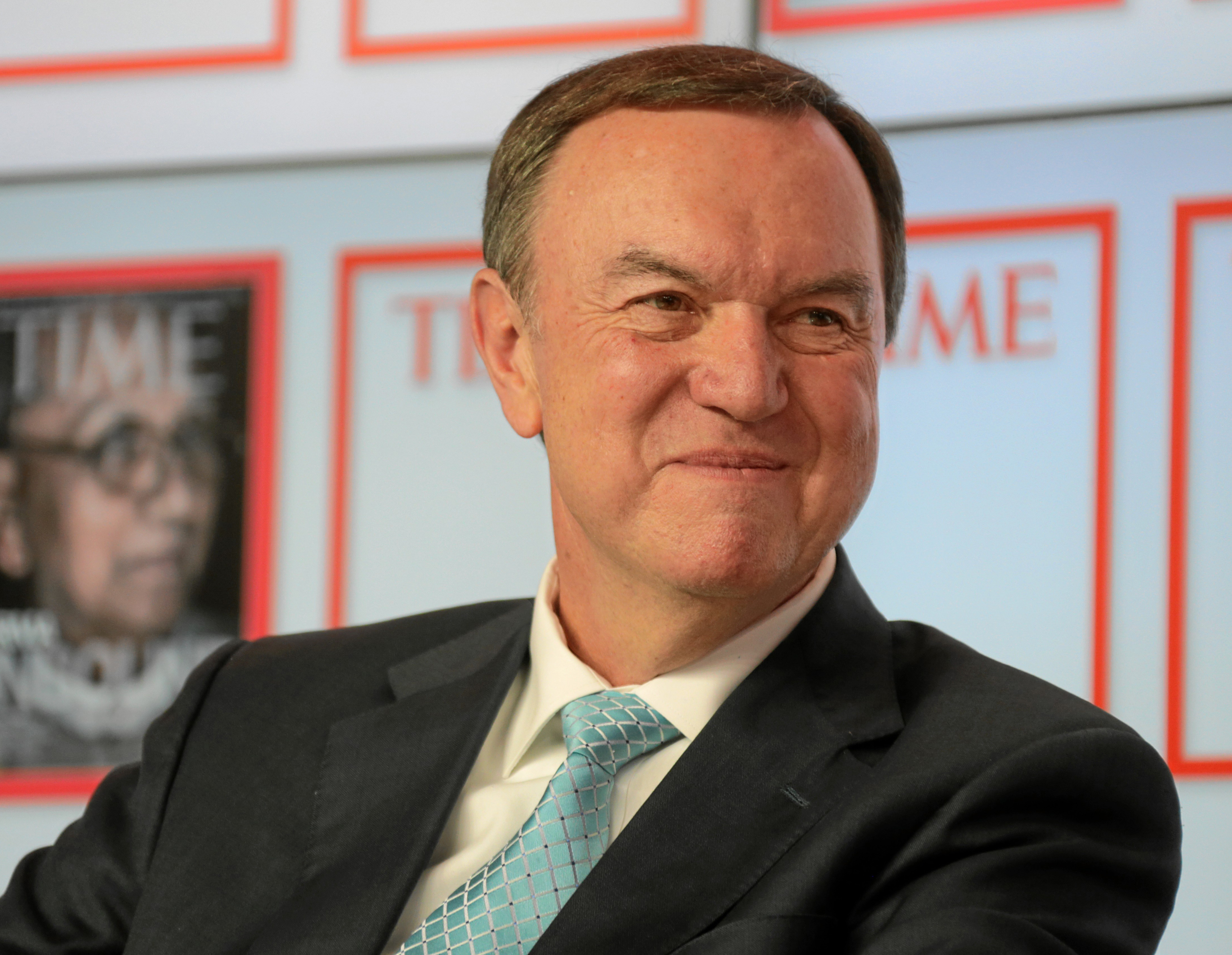 DAVOS/SWITZERLAND, 23JAN13 - Mike Duke, President and Chief Executive Officer, Wal-Mart Stores, USA; Co-Chair of the Governors for the Consumer Industries 2013 listens during the televised session 'Leading through Adversity - Improving Decision-Making' at the Annual Meeting 2013 of the World Economic Forum in Davos, Switzerland, January 23, 2013. Copyright by World Economic Forum. Remy Steinegger